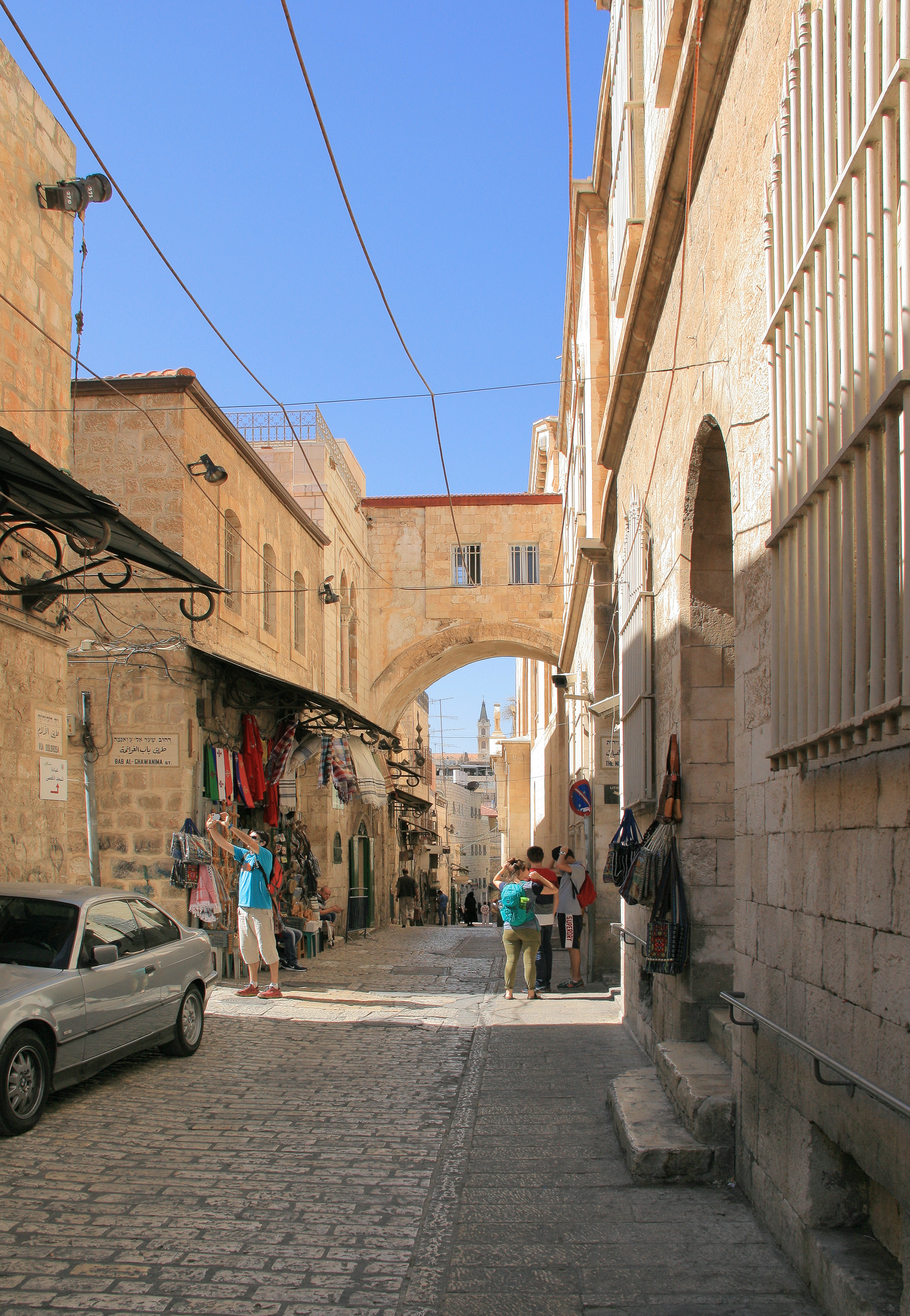 Via Dolorosa in Muslim Quarter of Jerusalem